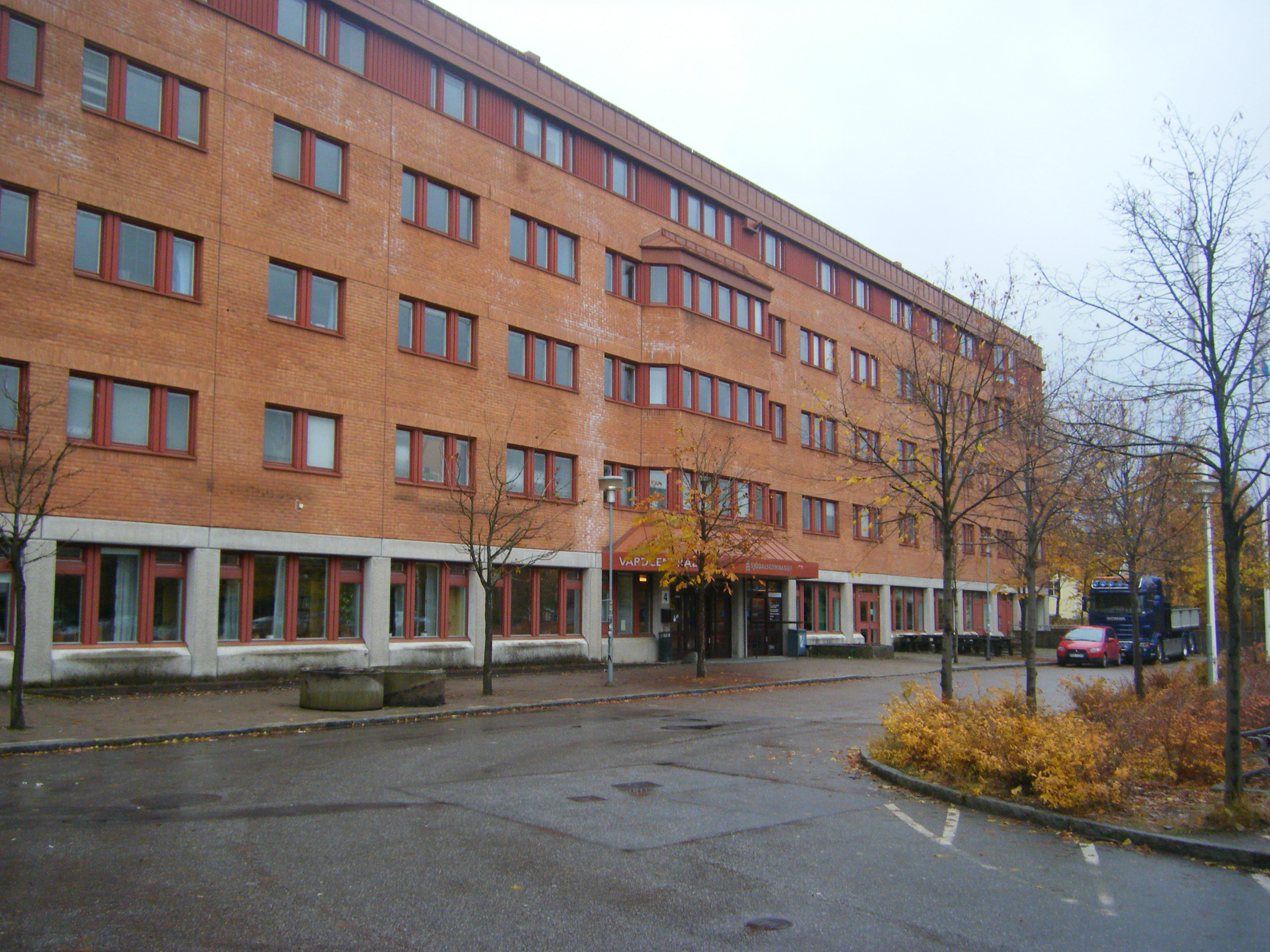 Sjödalsgymnasiet in Huddinge, Sweden